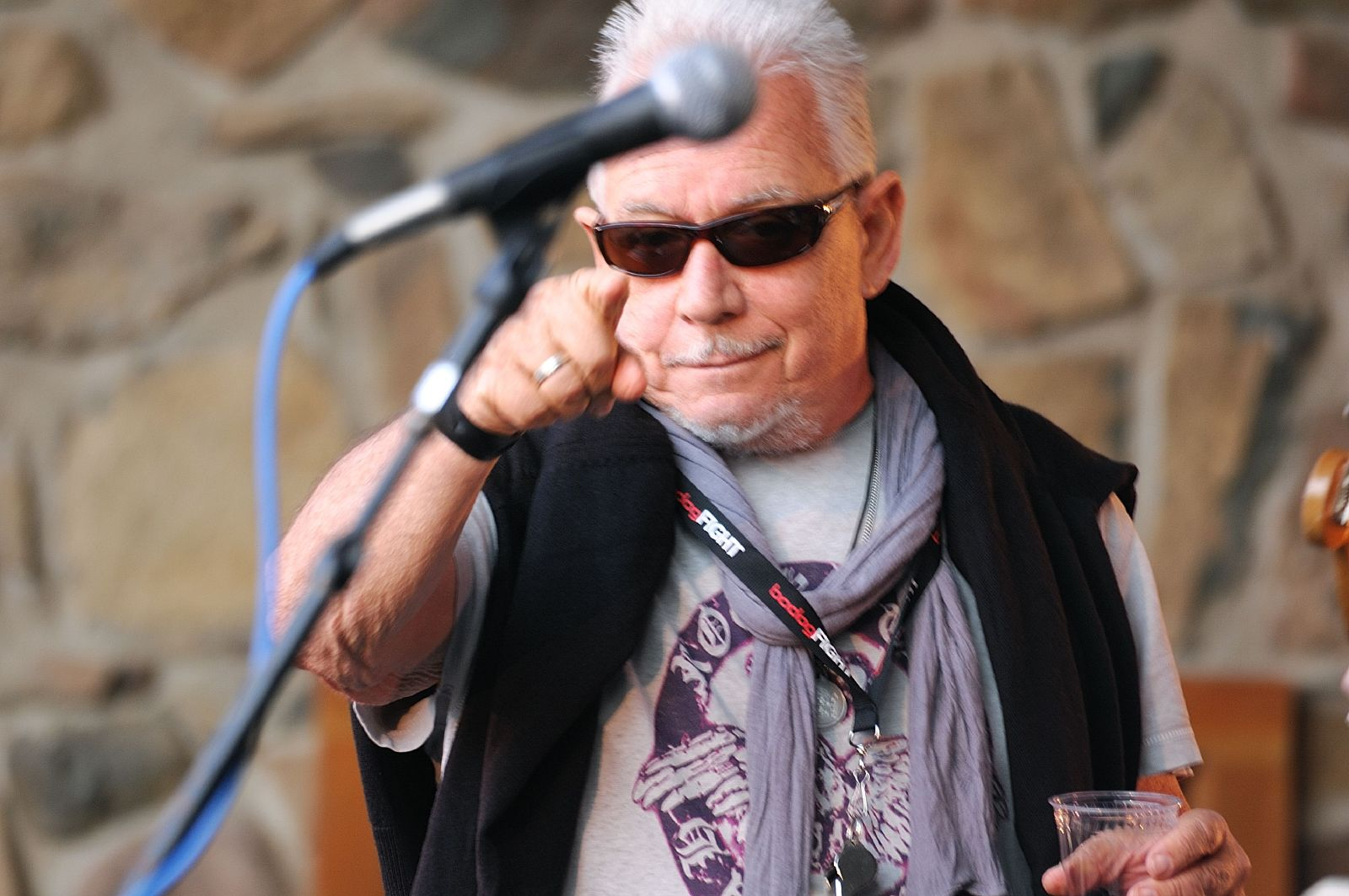 Eric Burdon today.